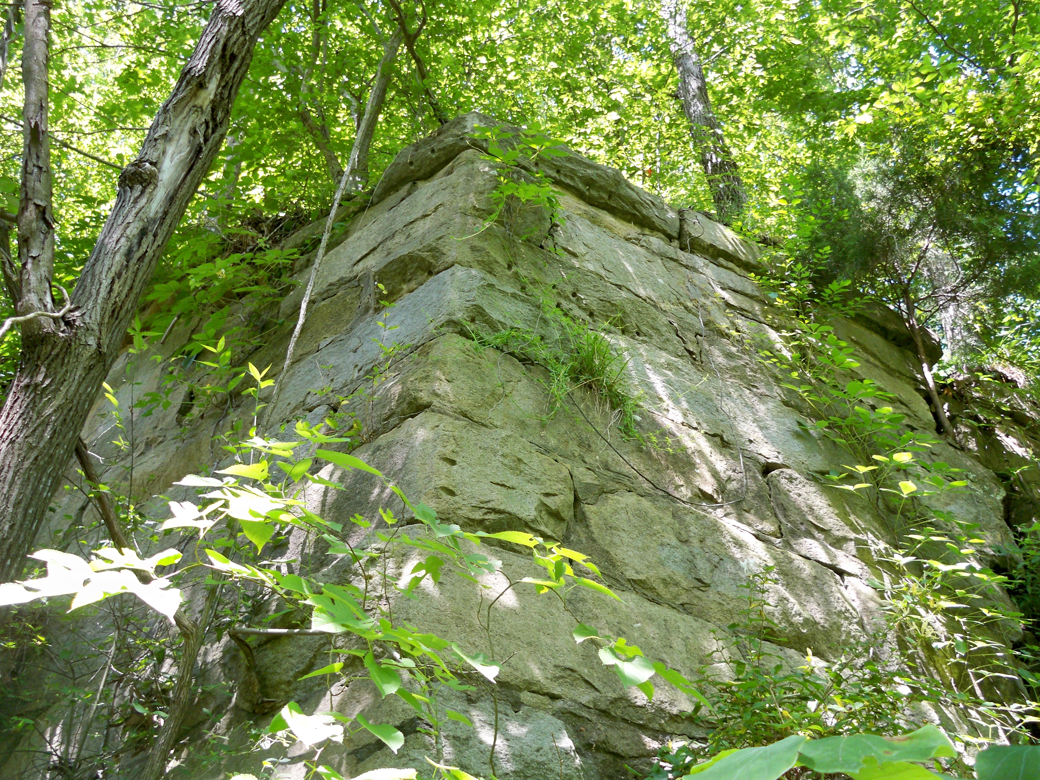 The Western Abutment of the no loner used Brighthope Railway Bridge over Swift Creek which is currently between a landfill and a townhome complex, Virginia, USA.